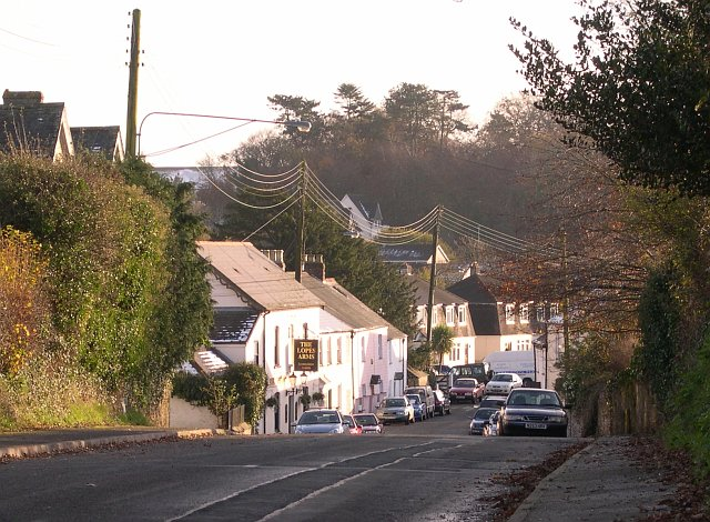 Roborough Village. Roborough is a village on the northern outskirts of the city of Plymouth. The main village street shown in this photograph used to be part of the A386 road between Plymouth and Tavistock but has long since been bypassed.